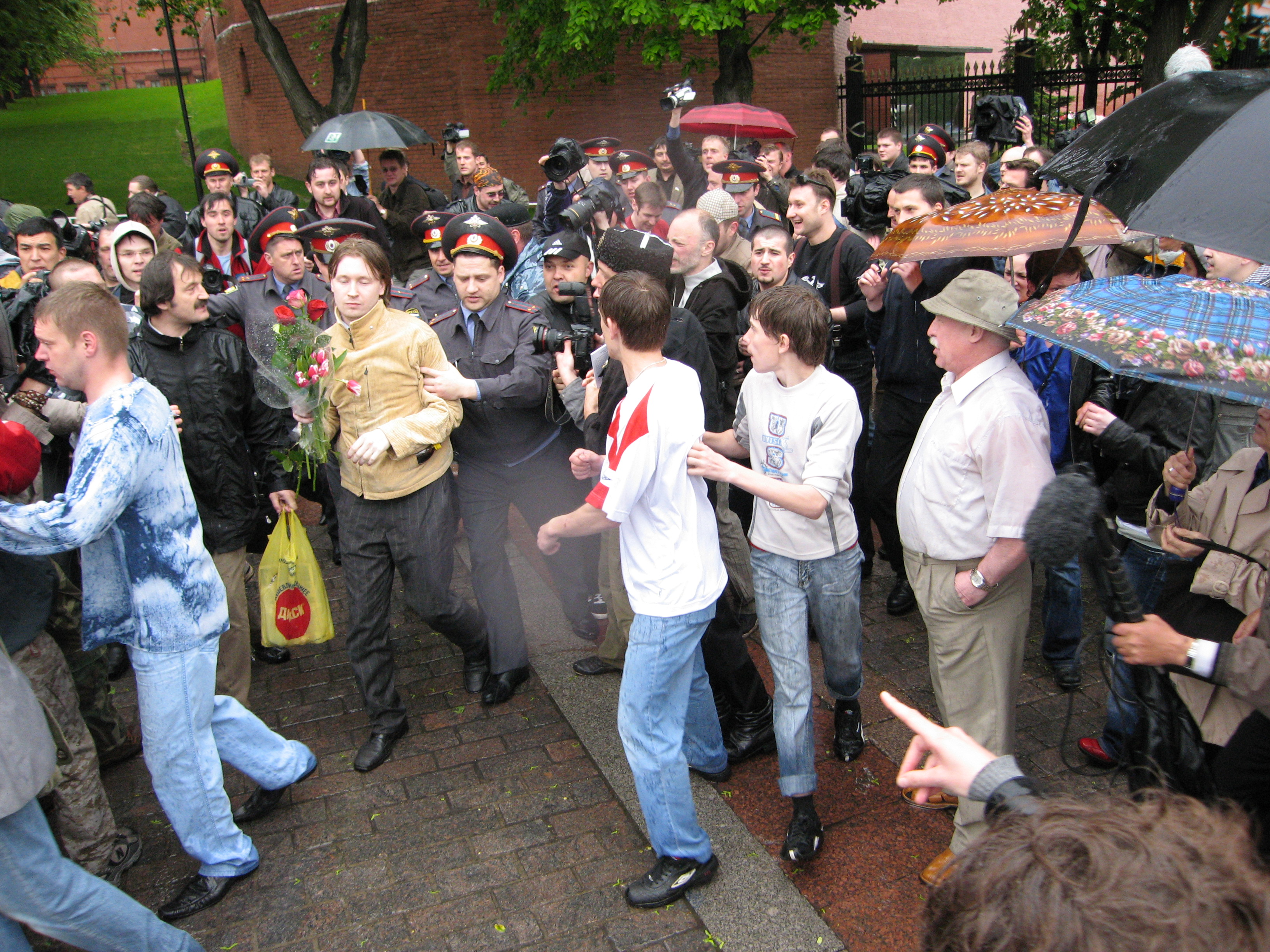 Photo of the arrest of Nikolai Alekseev at Moscow Pride on May 27, 2006